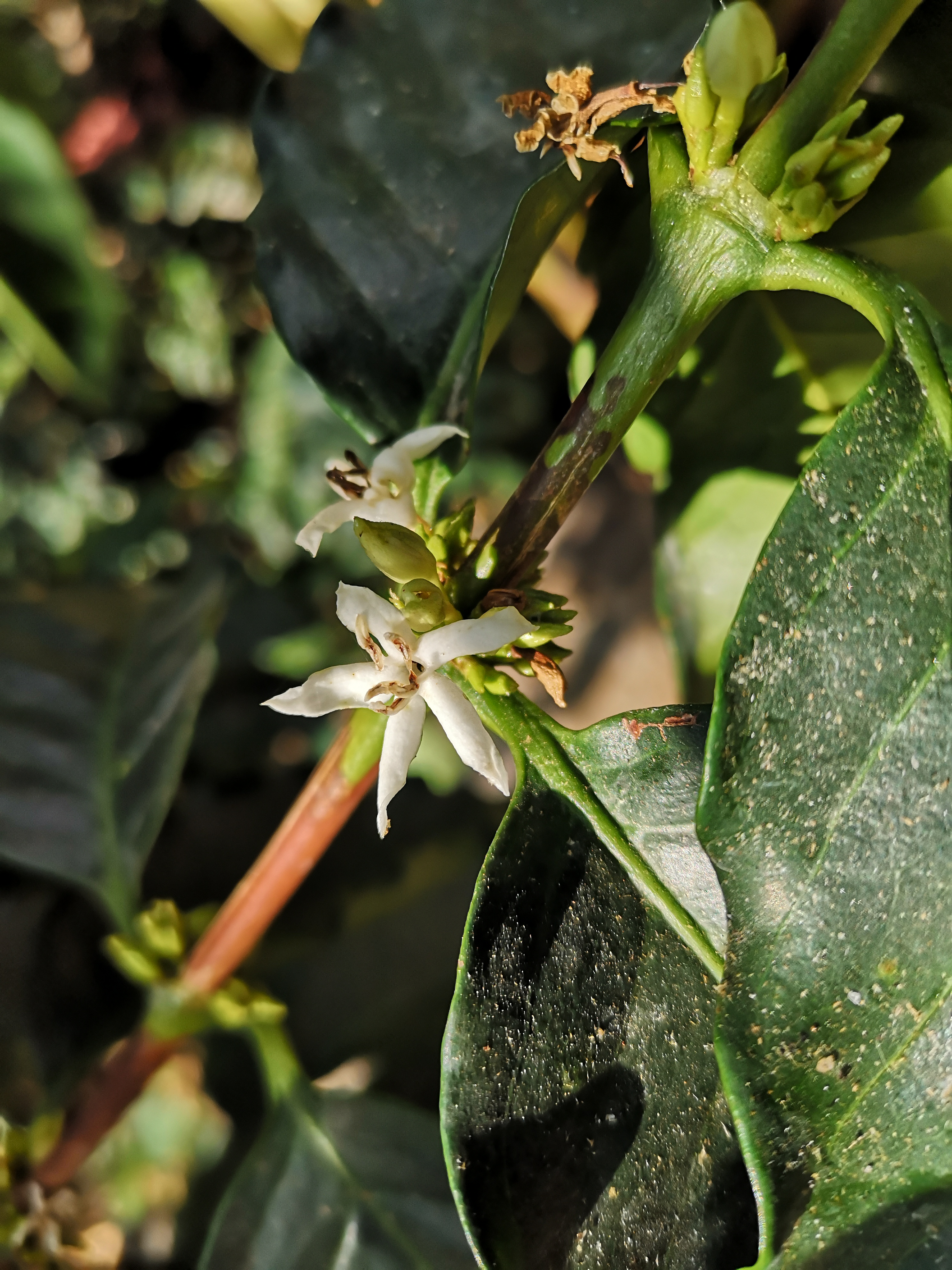 Colombian coffe arabica flower